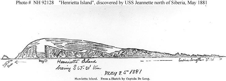 Photo #: NH 92128 Jeannette Arctic exploring expedition, 1879-1881 Facsimile of a sketch made by Lieutenant Commander George DeLong on 25 May 1881, depicting "Henrietta Island", discovered by USS Jeannette as she drifted icebound north of Siberia. Position was about 157E, 77N. Copied from "The Voyage of the Jeannette ...", Volume II, page 551, edited by Emma DeLong, published in 1884. U.S. Naval Historical Center Photograph. Online Image: 39KB; 740 x 265 pixels